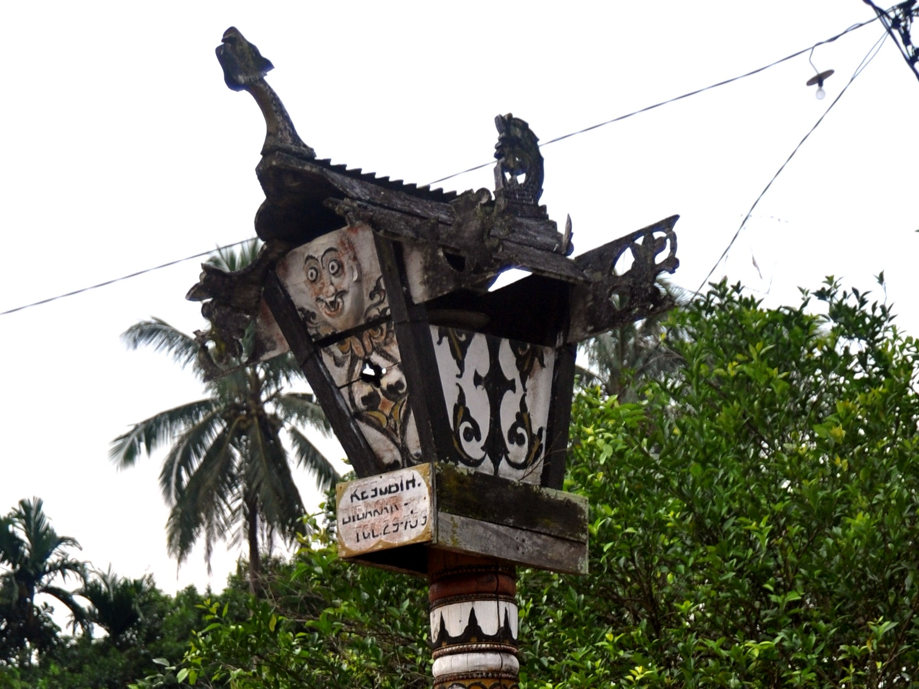 Sandung, a traditional bonehouse of Dayak tribe. From Ketapang, West Kalimantan, Indonesia.